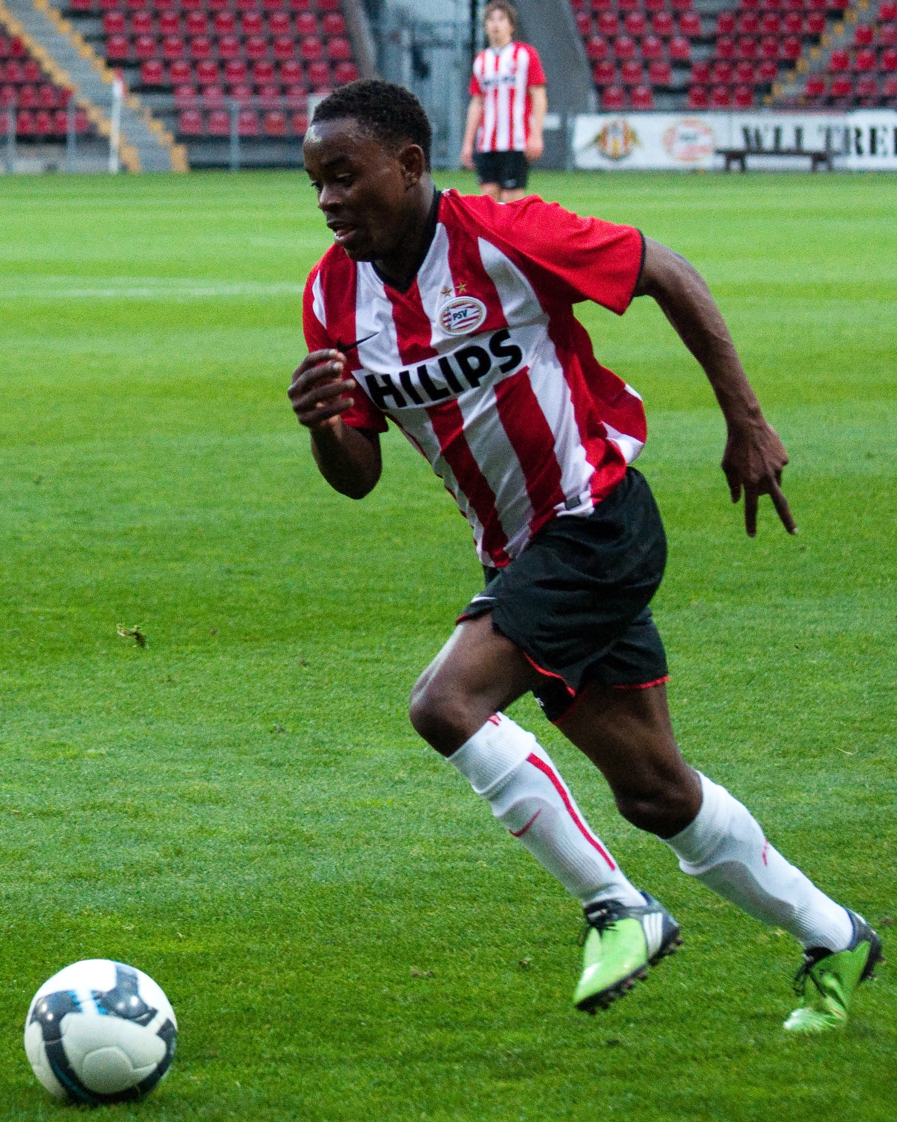 Elvio van Overbeek on 28 April 2010, playing with PSV U-19 versus Fortuna Sittard U-19 (4-2 win) in the Philips Stadium, Eindhoven for the Dutch cup.